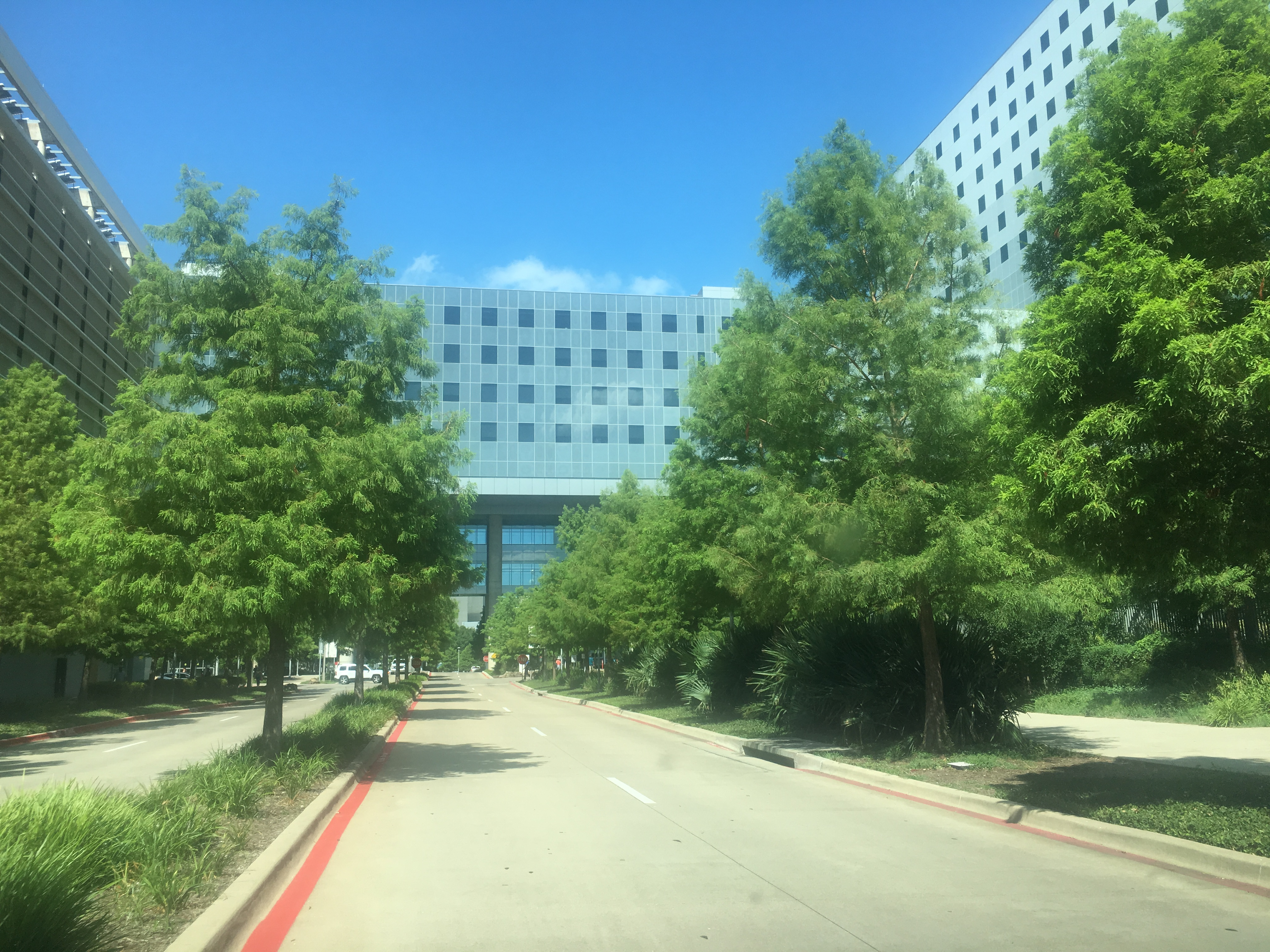 Parkland Memorial Hospital, Dallas, Texas